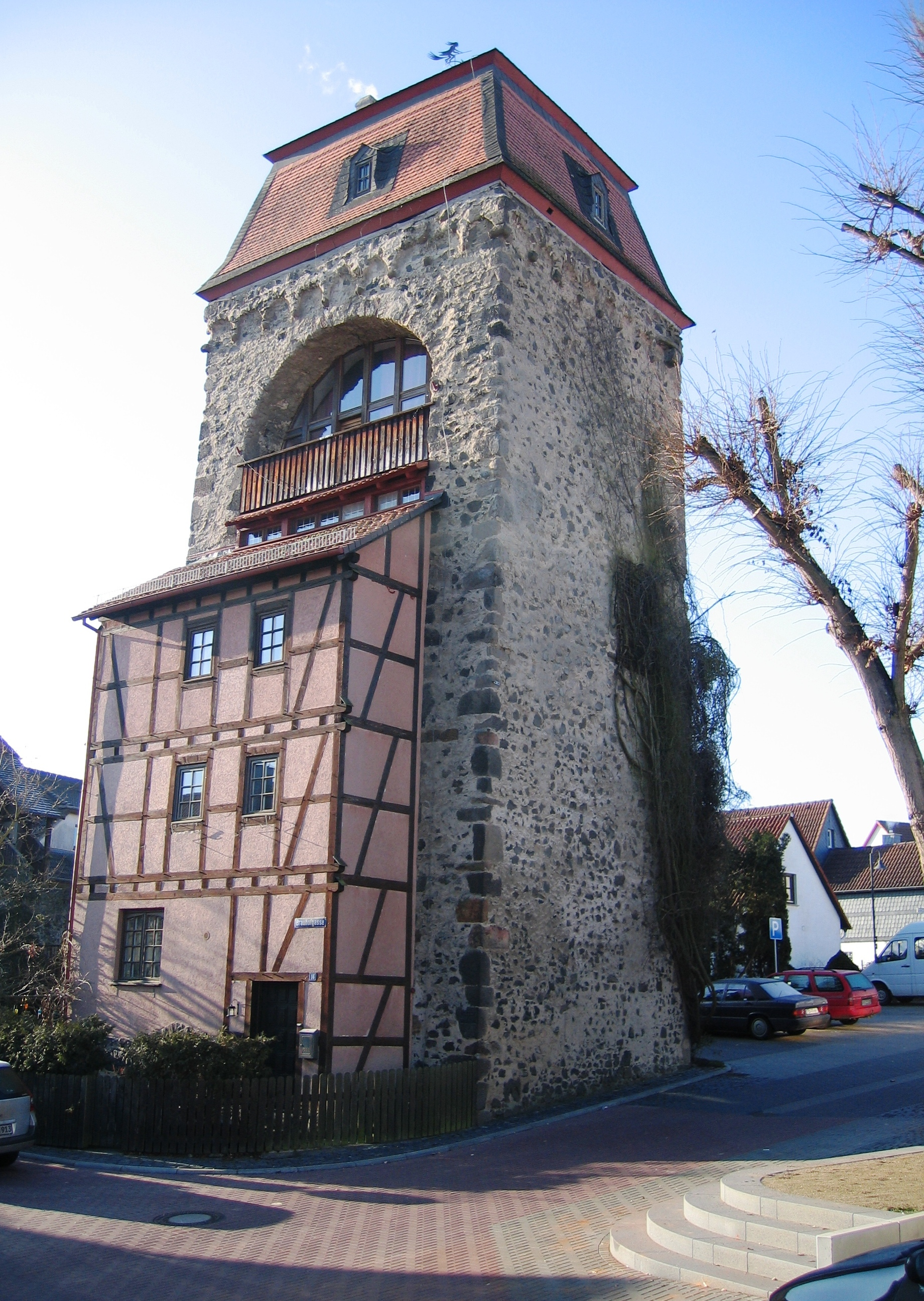 "Black Tower" in Wölfersheim